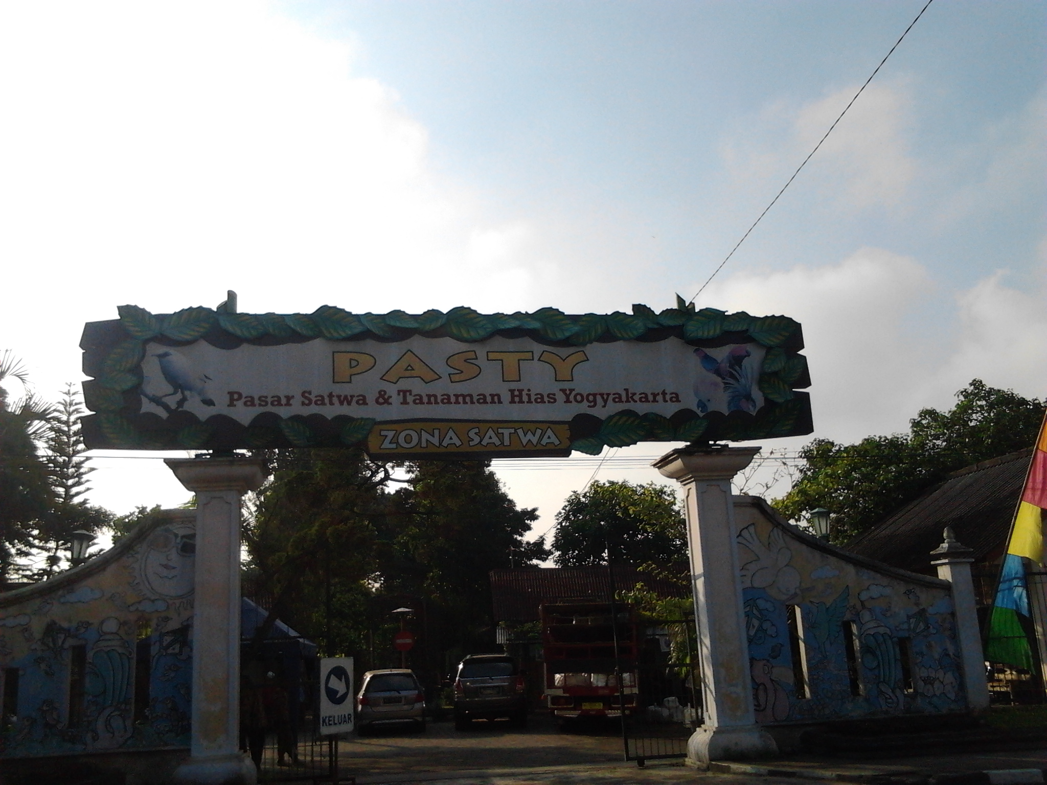 gerbang satwa